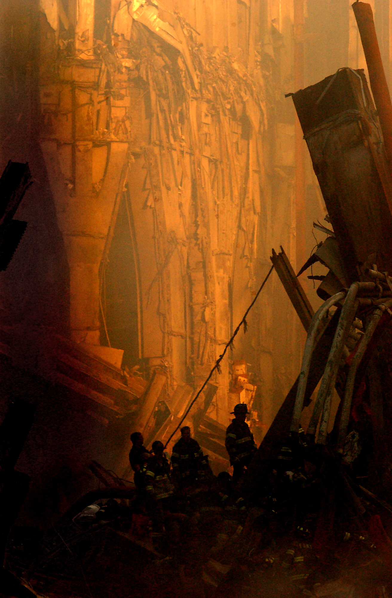 Rescue workers conduct search and rescue attempts, descending deep into the rubble of the World Trade Center.